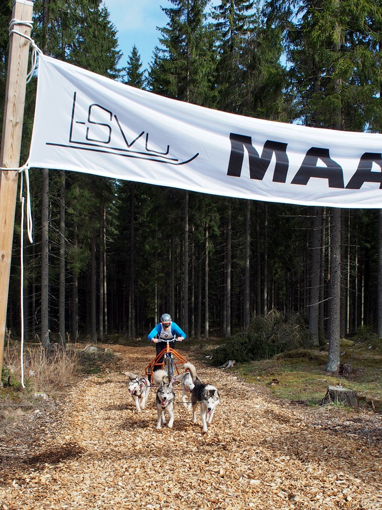 Team of four Siberian Huskies driven by Jukka-Pekka Ahonen about to finish Ohkolan Kevätajot offsnow sleddog race in 2016